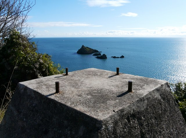 Brownstone Battery, foundation overlooking Mew Stone The concrete foundations for the gun battery are the remnants of the defences for the naval port of Dartmouth. This location is named Inner Froward Point.